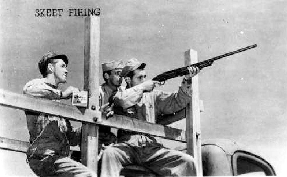 Kingman AAF Postcard - Skeet Firing